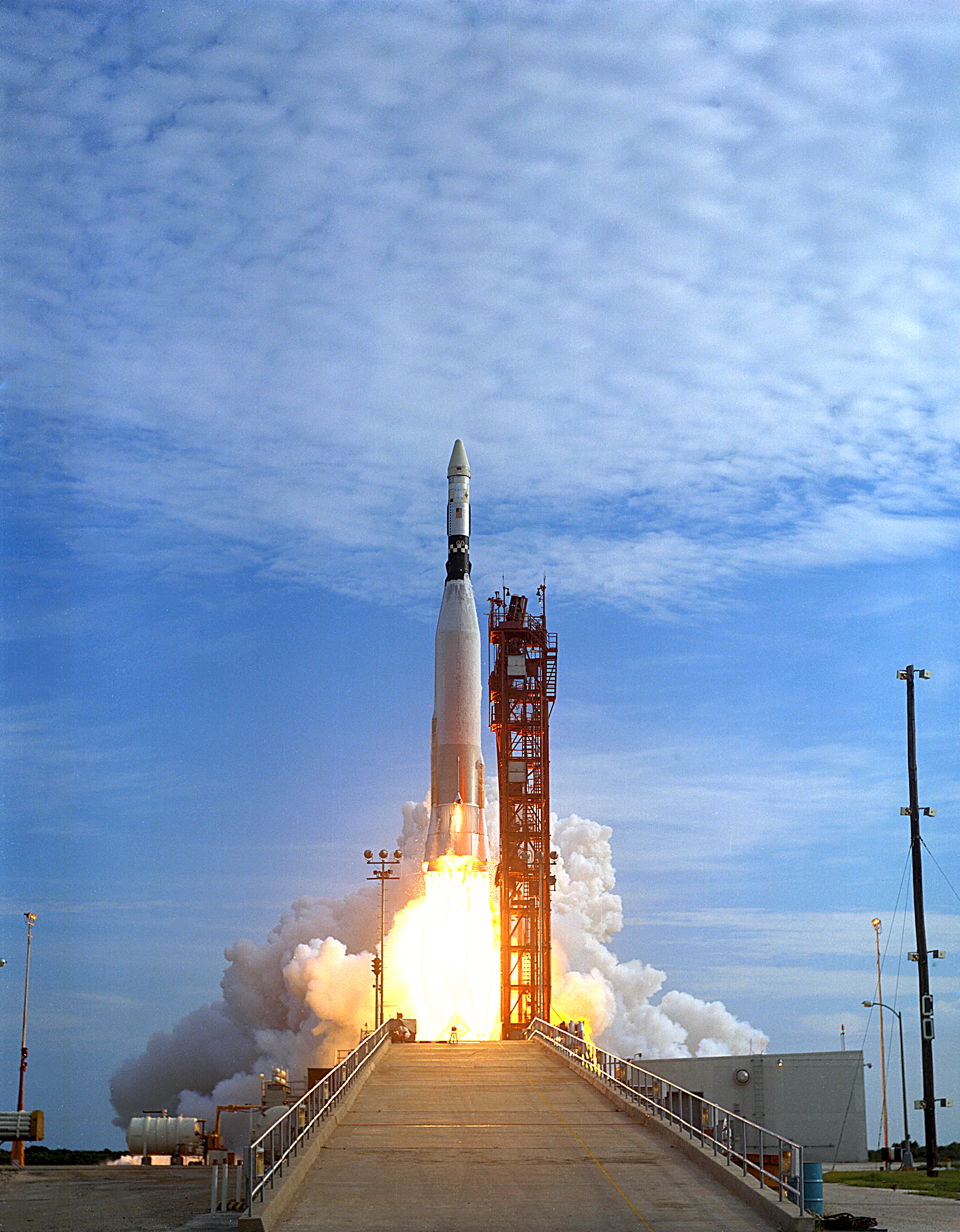 Atlas Agena target vehicle liftoff for Gemini 11 from Pad 14. Once the Agena was in orbit, Gemini 11 rendezvoused and docked with it.